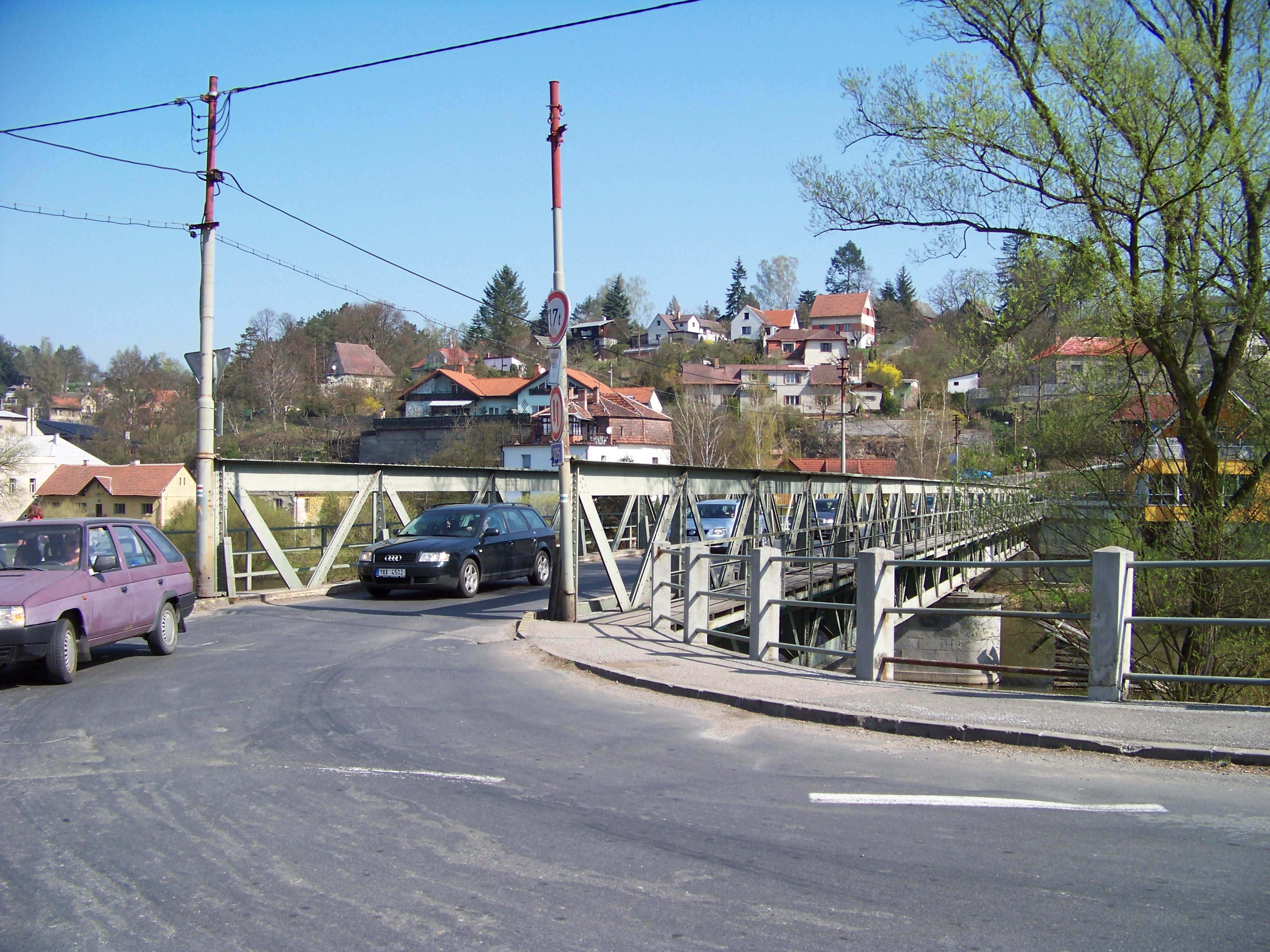 Kamenný Přívoz, Central Bohemian Region, the Czech Republic. A road bridge over the Sázava River.